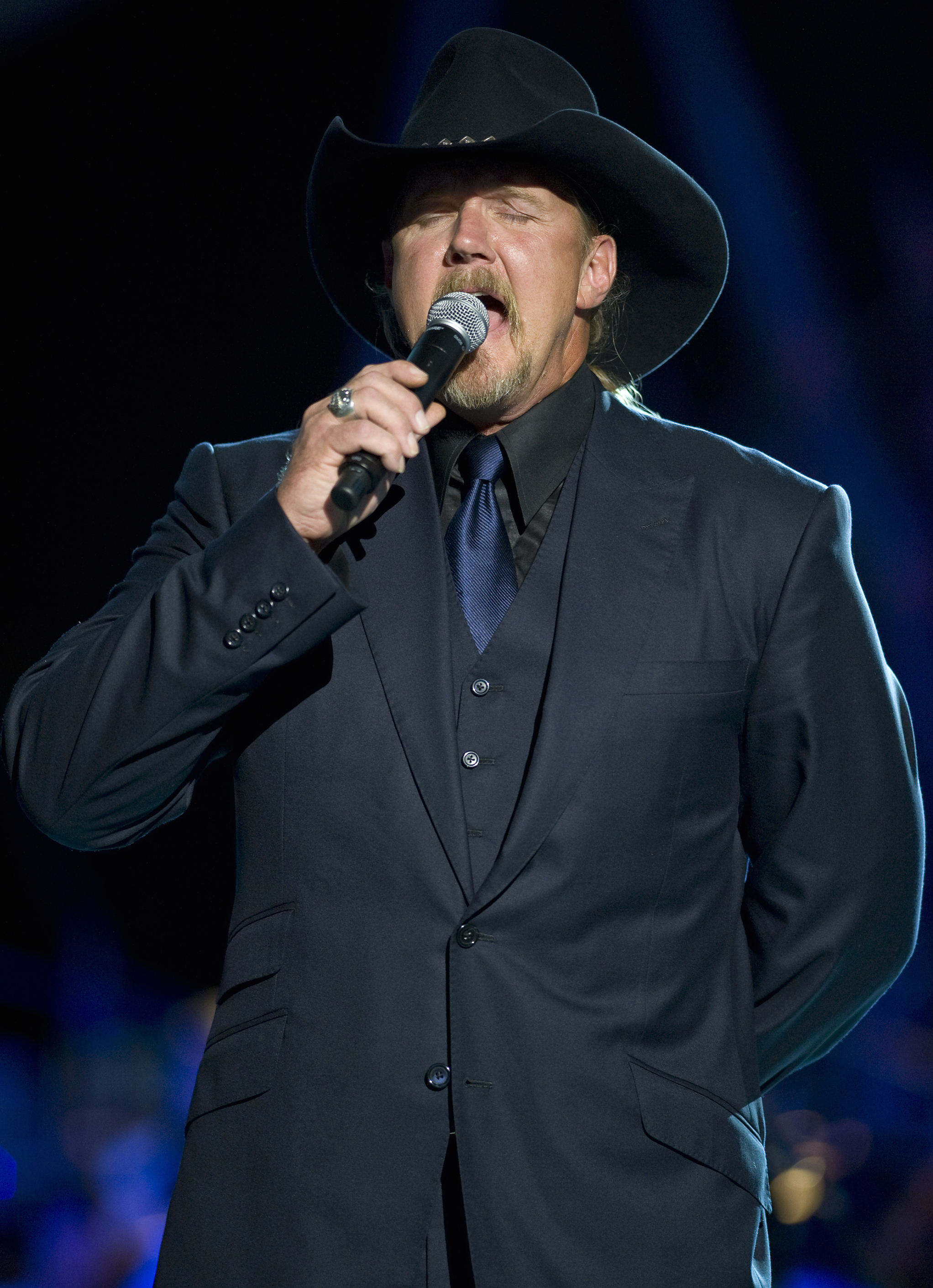 Country singer Trace Adkins performs at the National Memorial Day Concert, Washington, D.C., May 24, 2009. DoD photo by U.S. Navy Petty Officer 1st Class Chad J. McNeeley